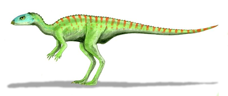 Gasparinisaura cincosaltensis, an ornithopod from the Late Cretaceous of Argentina, pencil drawing, digital coloring